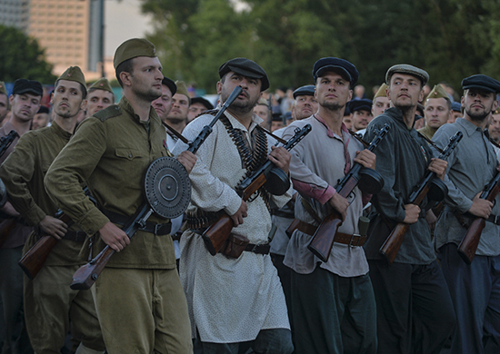 Командующий войсками ЗВО проверил готовность военнослужащих к параду в Минске, посвящённому Дню независимости Белоруссии